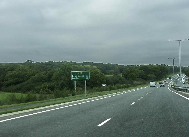 A22 northbound towards East Grinstead near to Summer Hill, East Sussex.